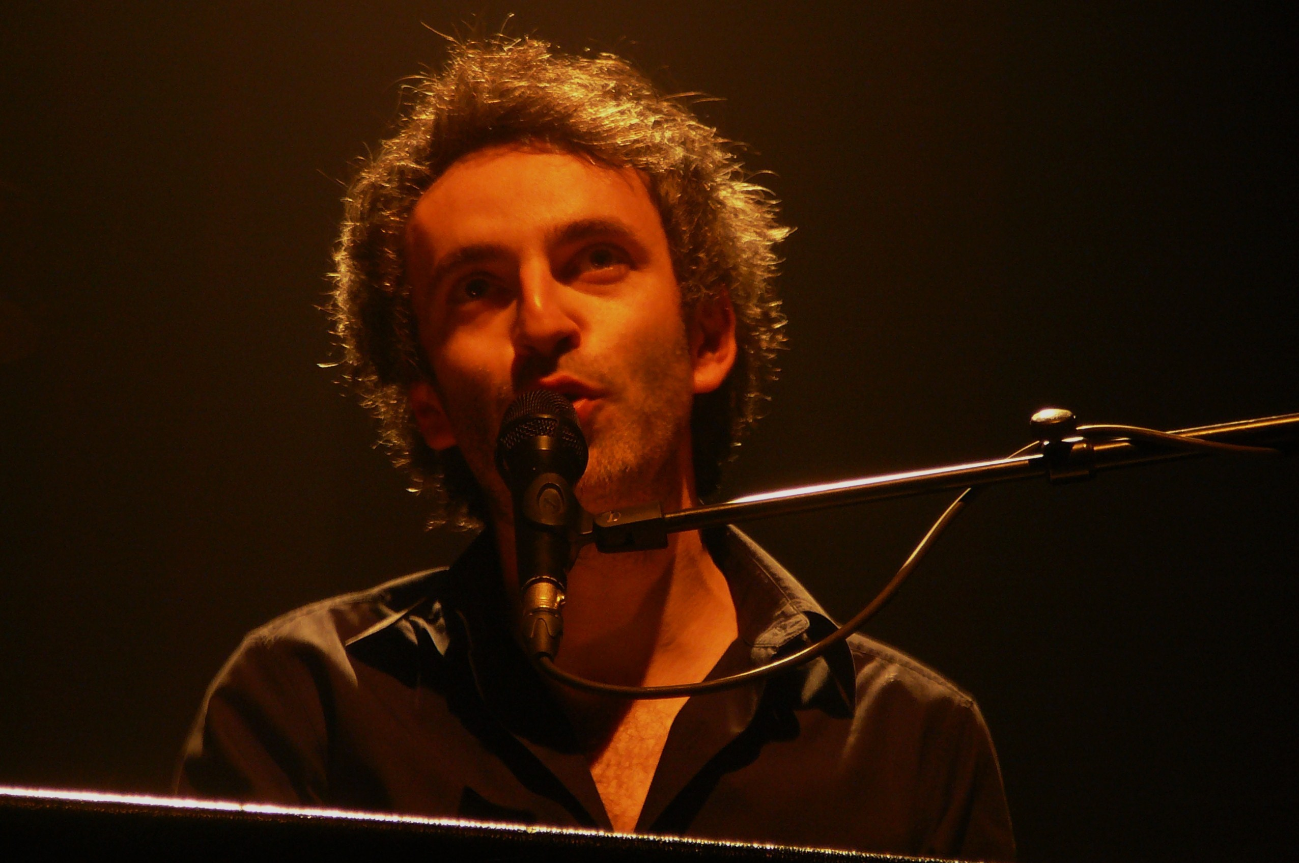 Vincent Delerm in concert in Paris (la Cigale)